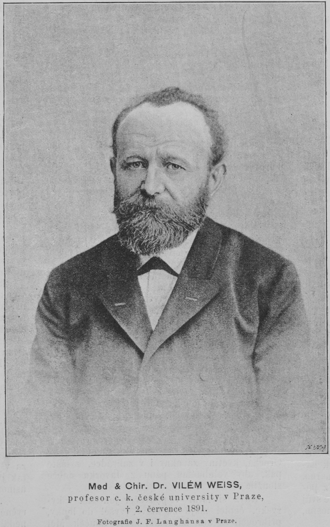 Photograph of Vilém Weiss (1835 - 1891), Czech professor of medicine